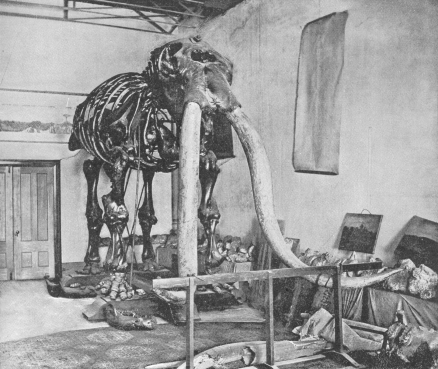 The Warren Mastodon.